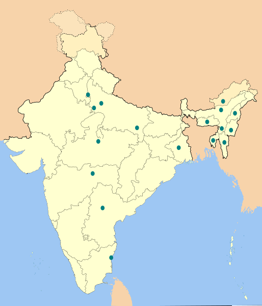 I have edited this file. I have marked the location of Sagar University, which is declared as Central Universiy(India) recently. Please replace the existing version(India central universities.png) with this one.